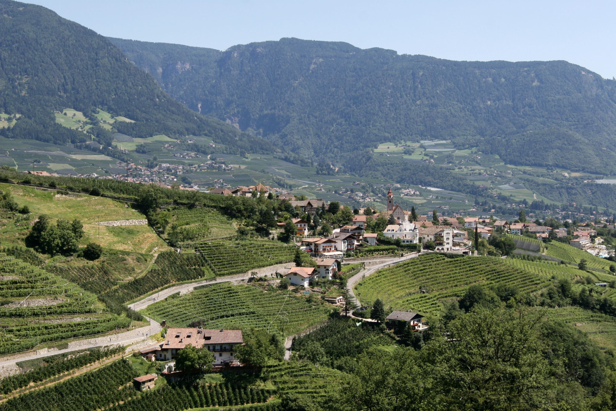 The village of Tyrol near Meran, South Tyrol